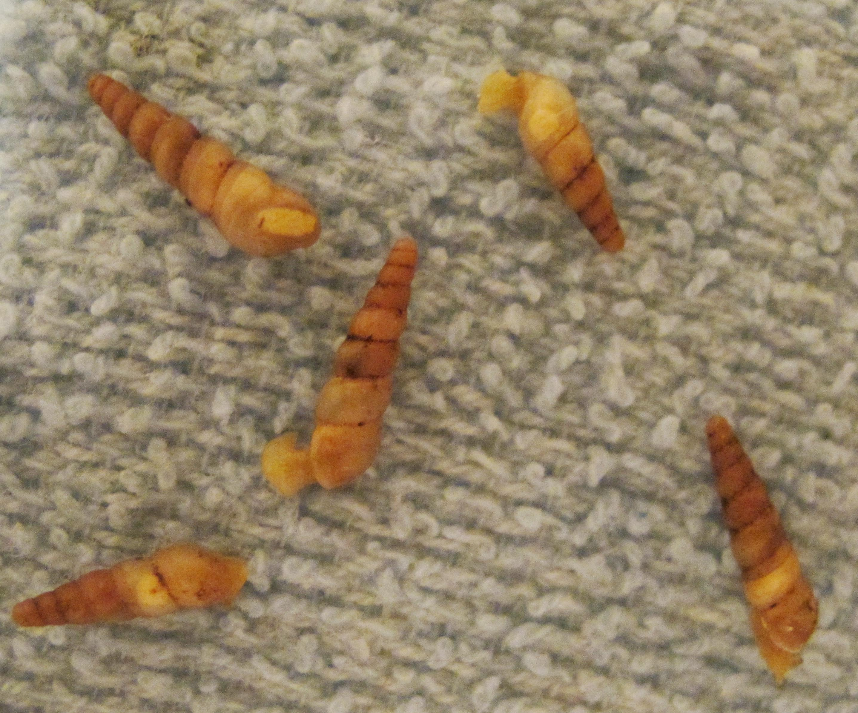 Five individuals of the land snail Subulina octona on a wet washcloth. The snails were found in a backyard in Charlestown, Nevis, West Indies in May, 2004.